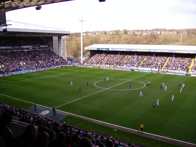 Ewood Park Football Ground Ewood Park Stadium - the home of Blackburn Rovers FC. Rovers vs. Wigan Athletic